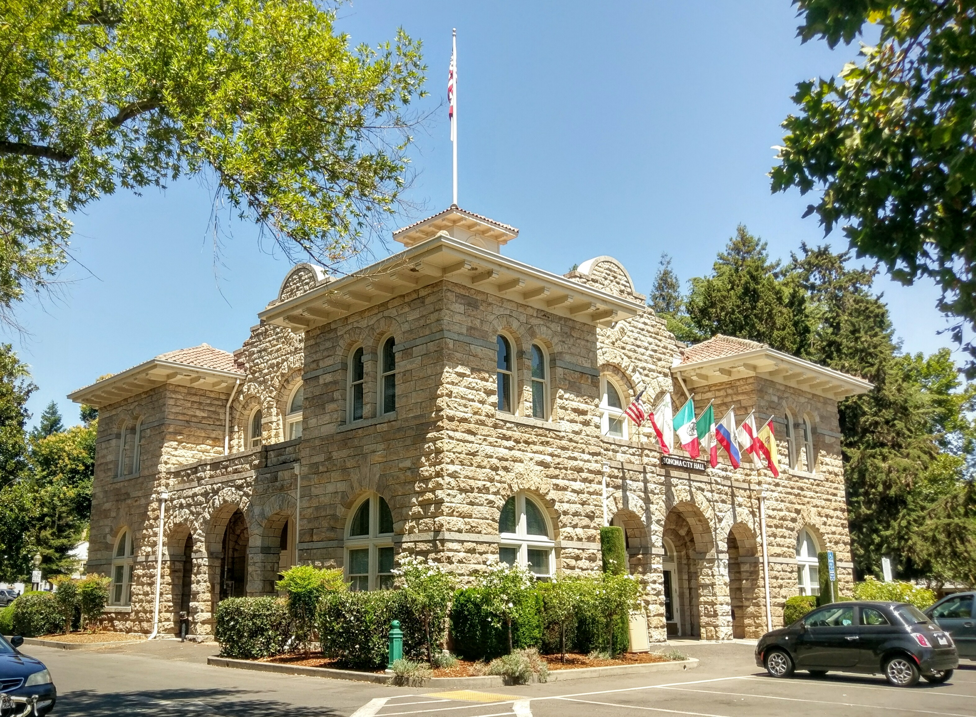 A diagonal view of Sonoma City Hall taken in 2016. Photo by Jim Heaphy.